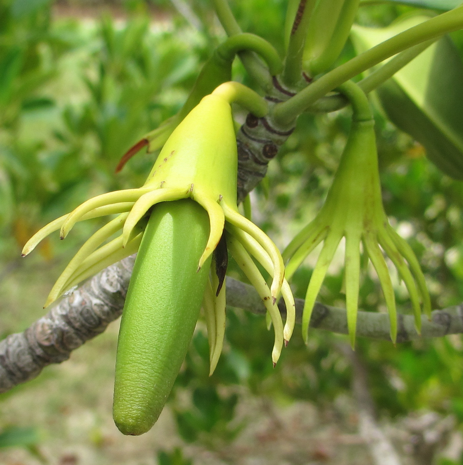 Black mangrove. Pemba bay in Northern Mozambique.